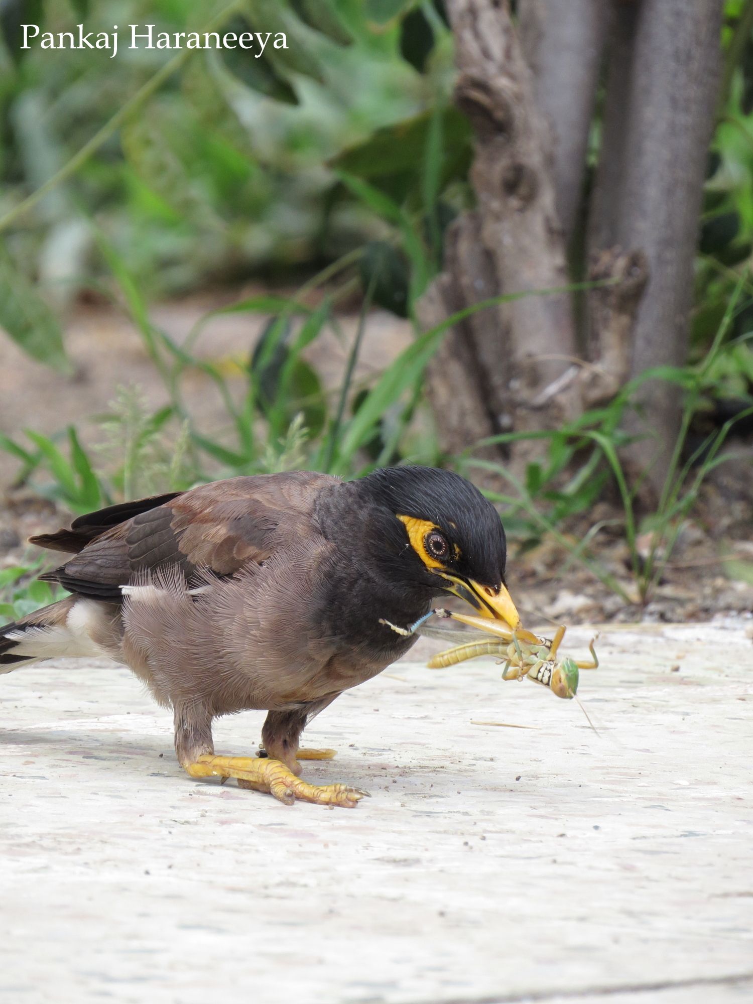 Common Myna caught a grasshopper and swallowed it after striking it to ground so many times. Striking is done to breaks down skeleton of grasshopper, which helps in eating.ગુજરાતી: કાબર તીતીઘોડાને ખાઈ રહી છે. તેણે તીતીઘોડાને પકડ્યા બાદ જમીન સાથે ઘણીવાર પટકાવીને તેનું હાડપીંજર તોડી નાખ્યું, જેથી કરીને તેને ગળવામાં આસાની રહે.